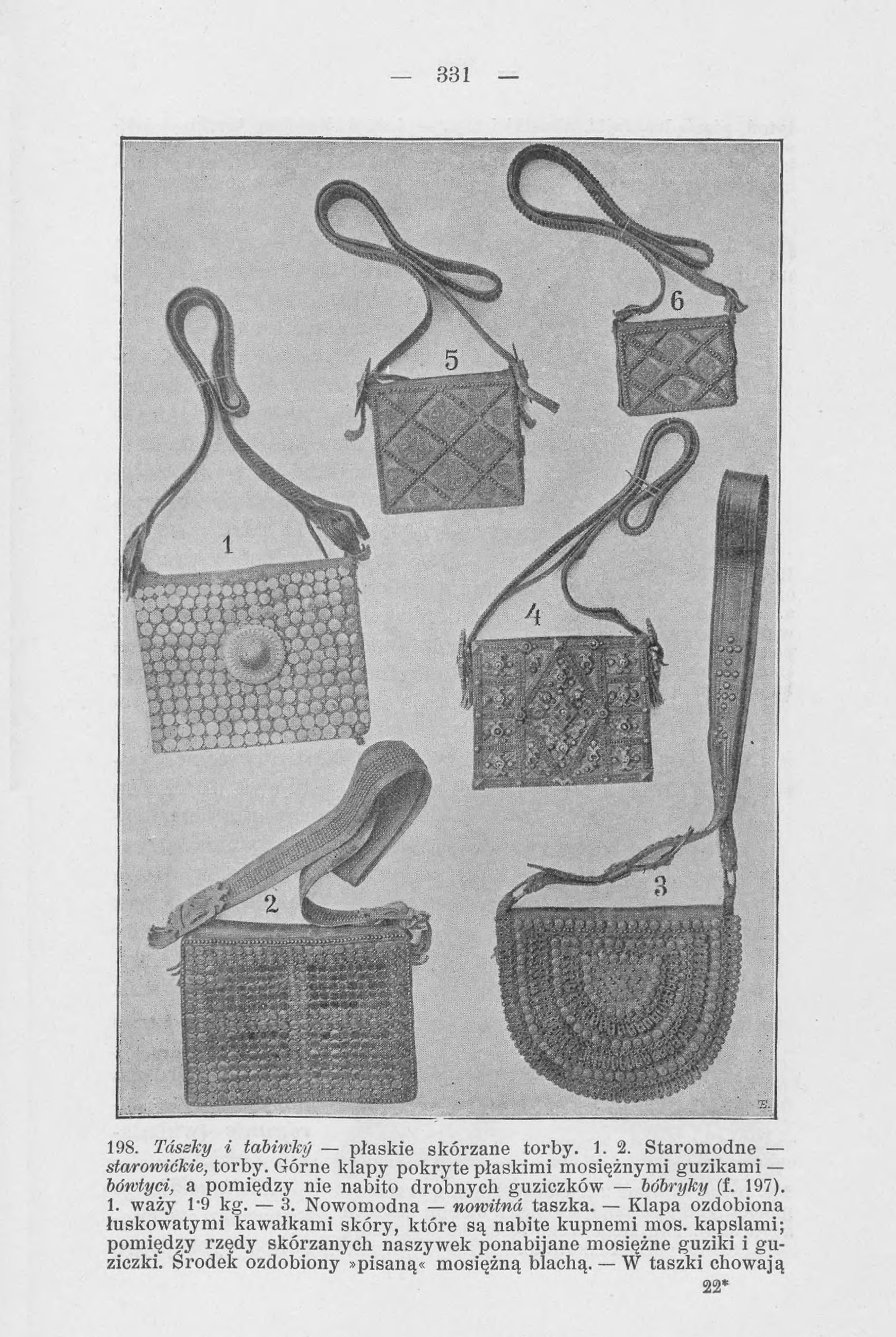 Hutsuls